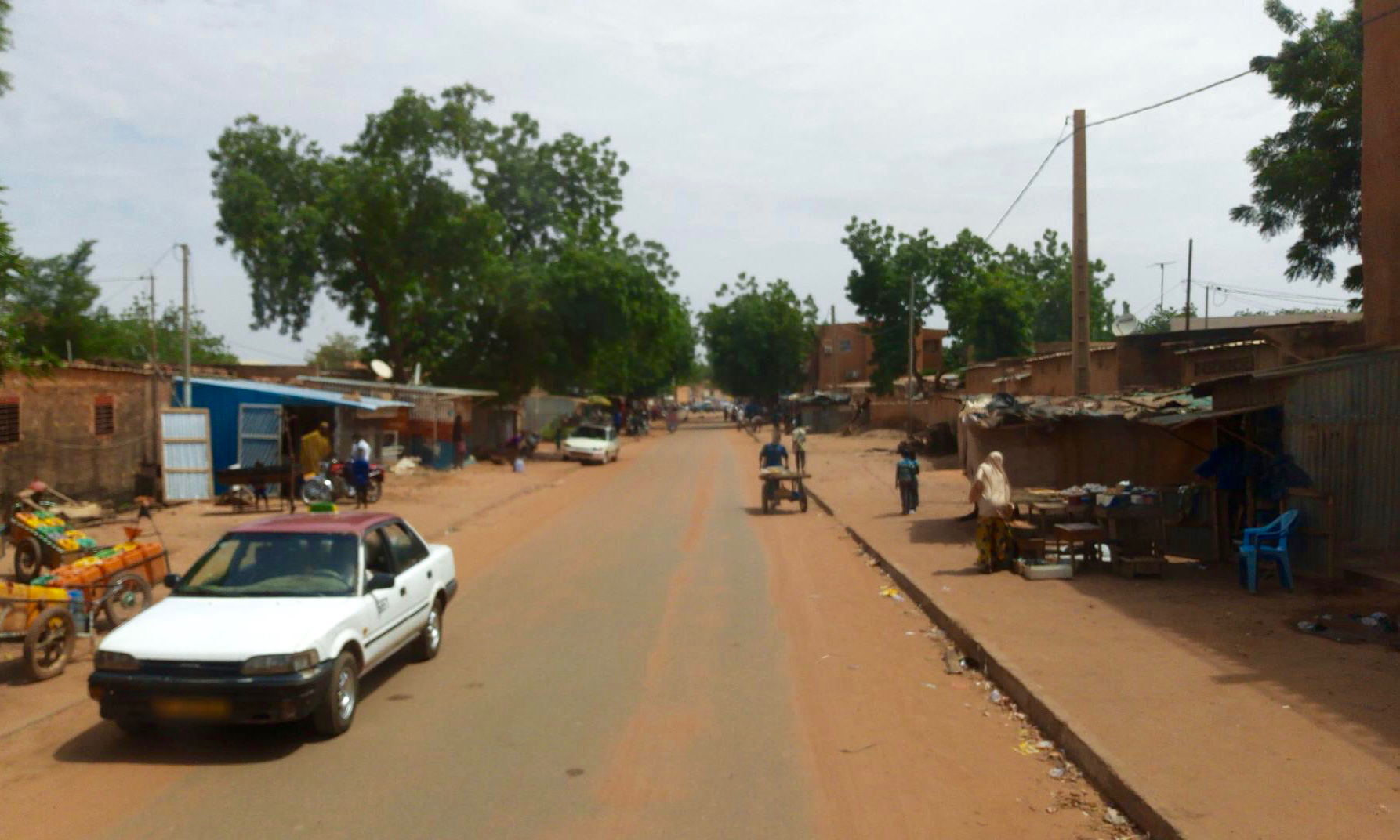 Rue de l’Egypte in Balafon, Abidjan quarter, Niamey.